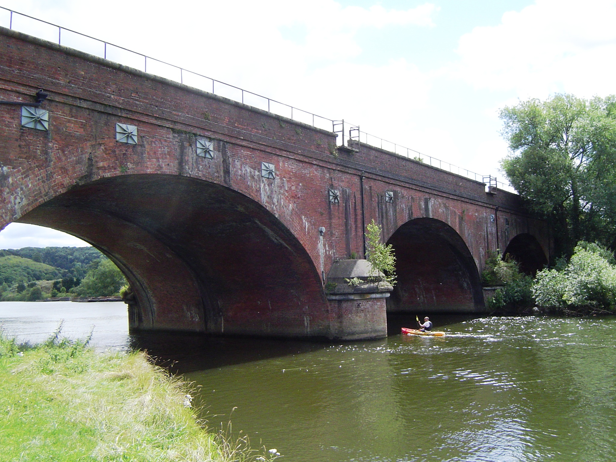 Gatehampton Railway Bridge River Thames from th upstream side